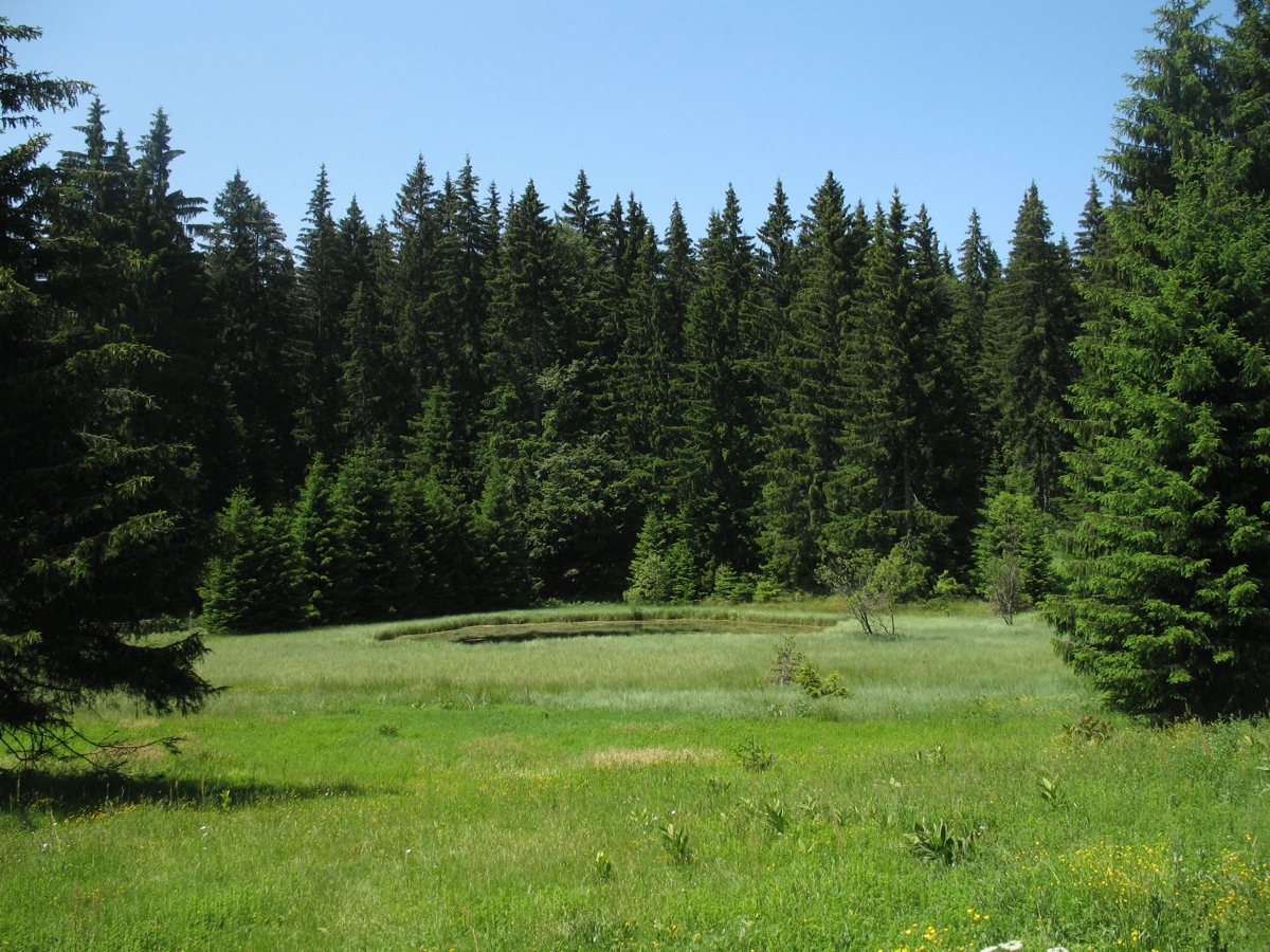 Tičar (Dajićko) Lake on Golija mountain,Sebia.